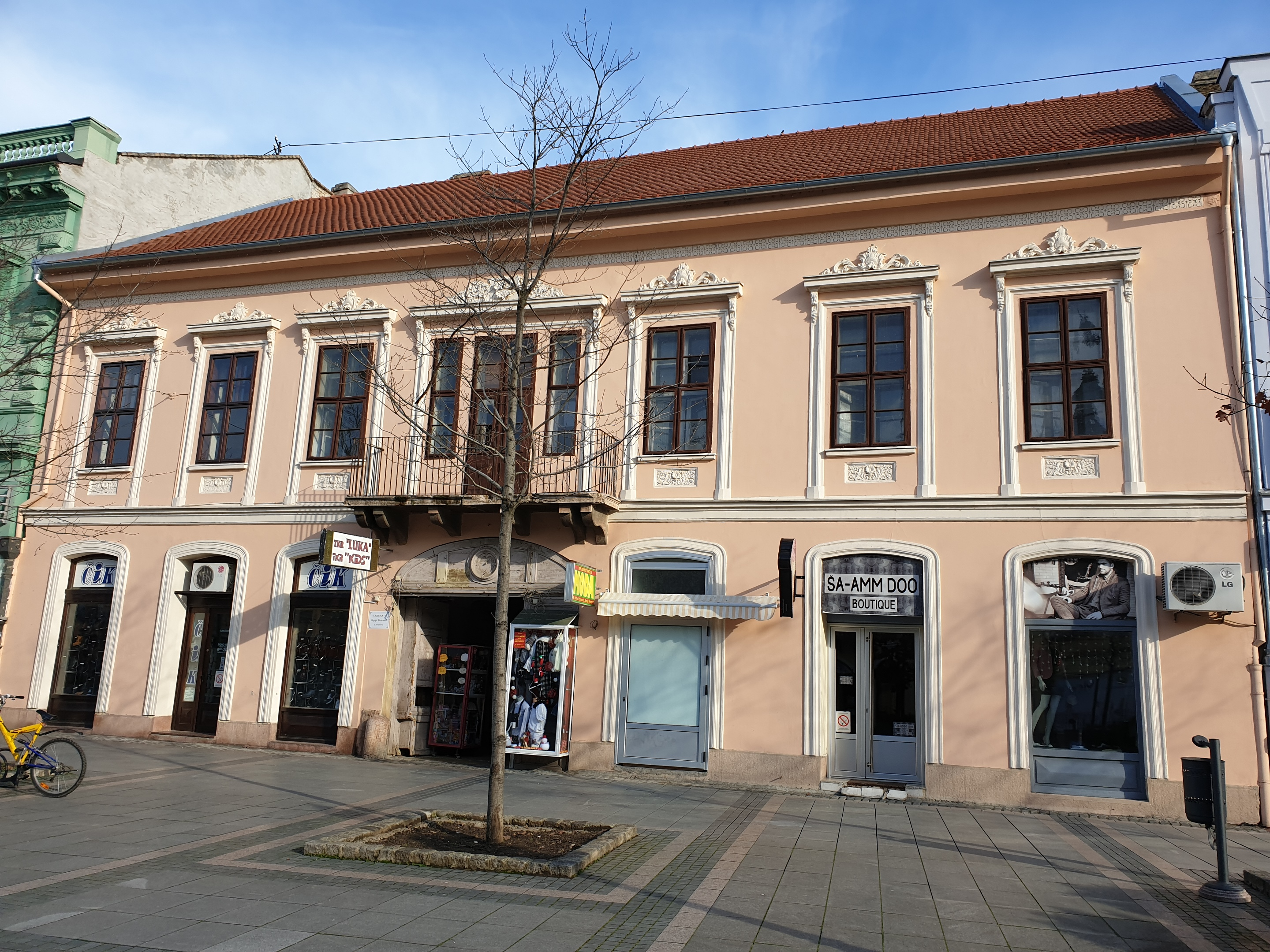 Kuća Jaše Laloša